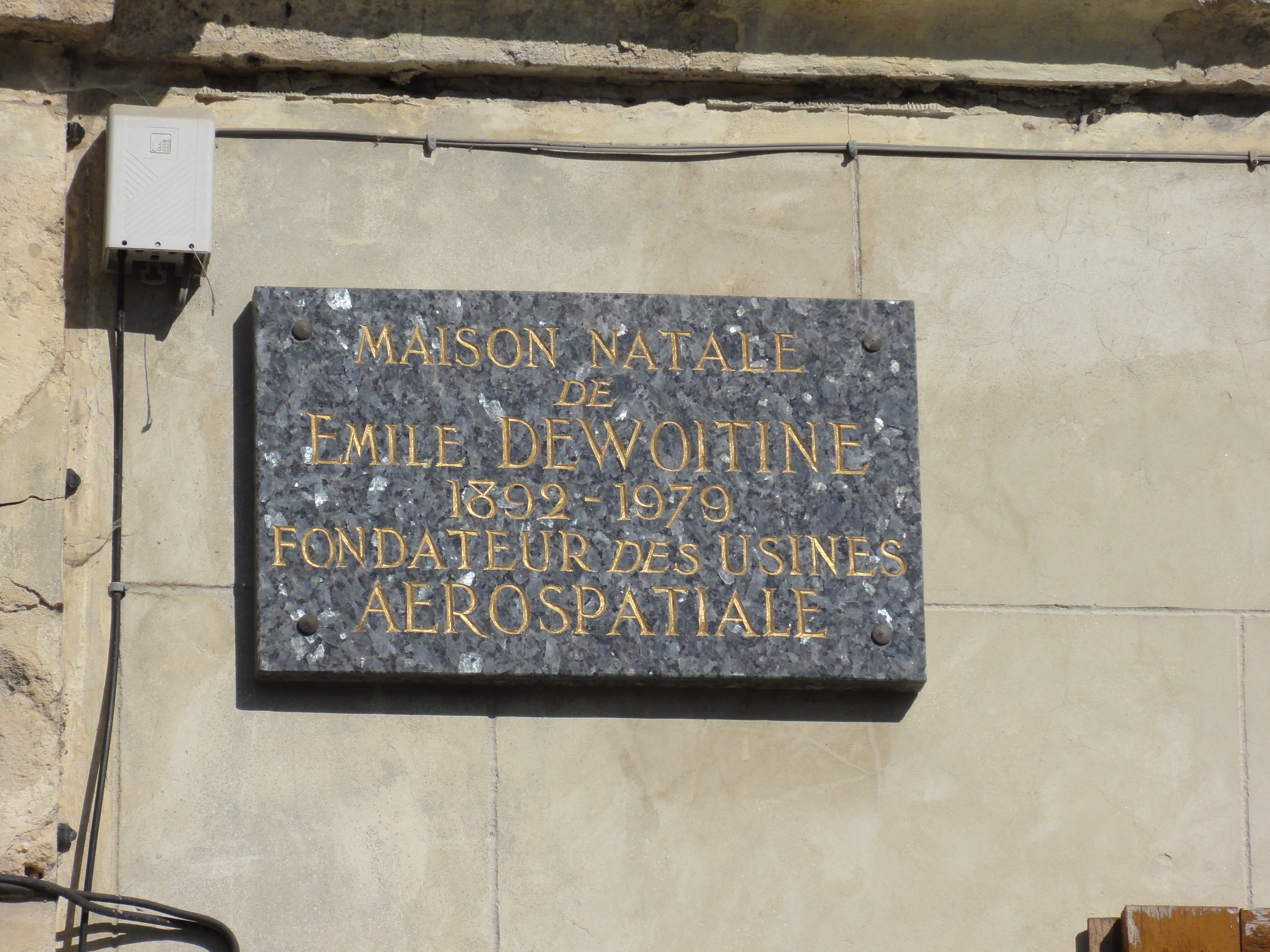 Crépy (Aisne) plaque maison natale Emile Dewoitine